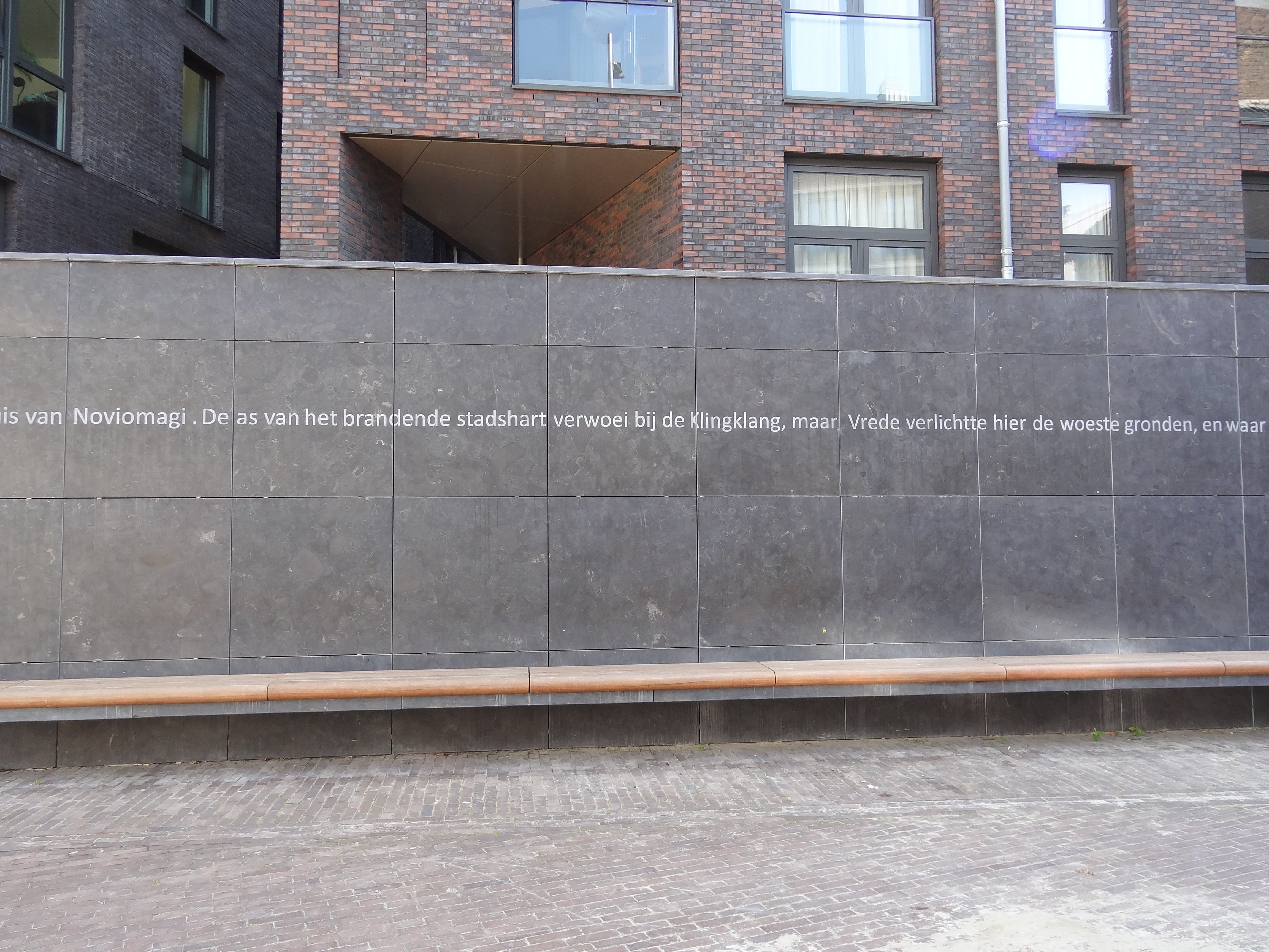 Poem by H.H. ter Balkt at the Gebroeders Van Limburgplein in Nijmegen, The Netherlands